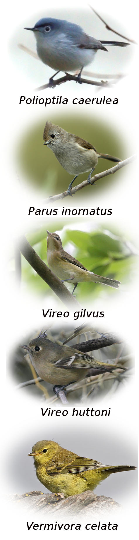 Passeriformes that formed the original guild of Root (1967)